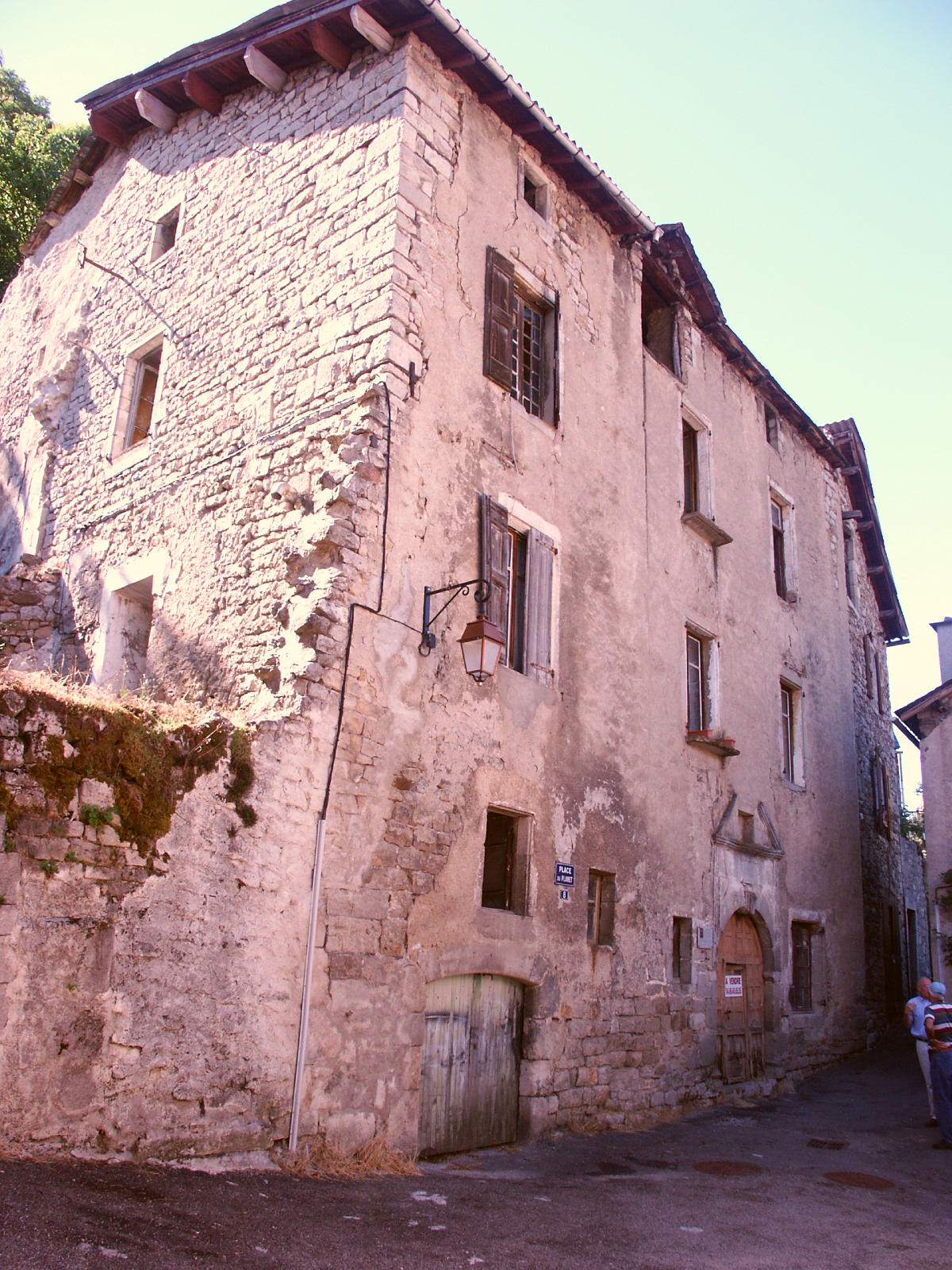 Old town house, also called "Maison des Consuls"